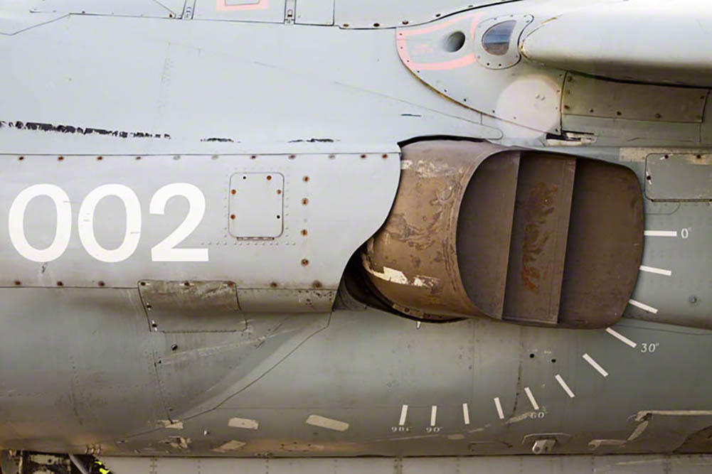 One of the four vector thrust nozzles on Sea Harrier FRS2 ZA195.